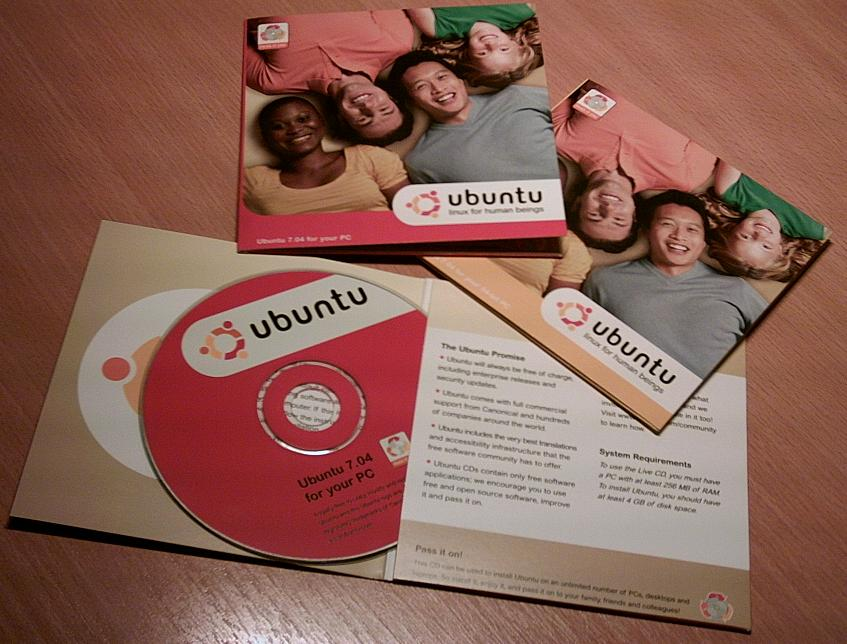 Ubuntu cds 7.04, retrieved by ShipIt